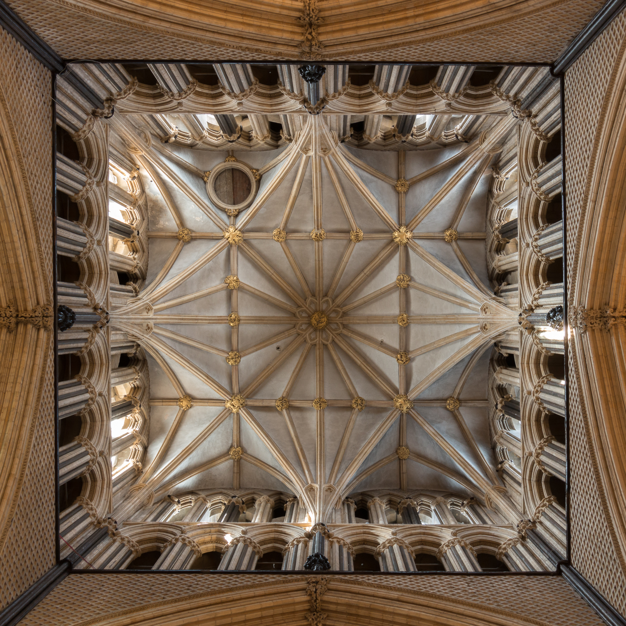 Crossing of Lincoln Cathedral